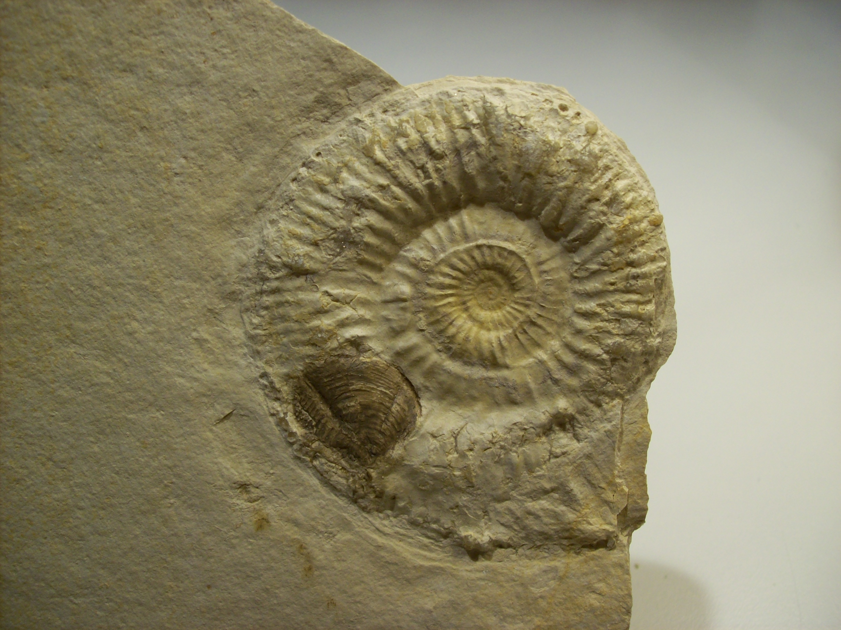 Ammonite, Perisphictes, with aptychi. From the Solnhofen limestone (Germany) - Late Jurassic.